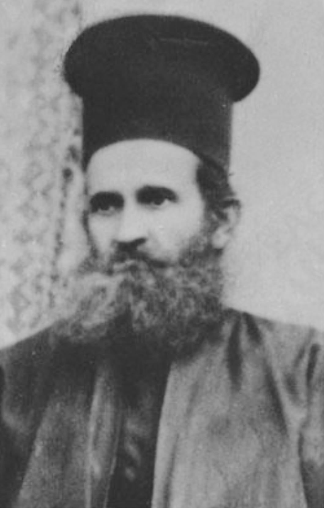 A rare surviving image of priest and photographer Jani Zengo